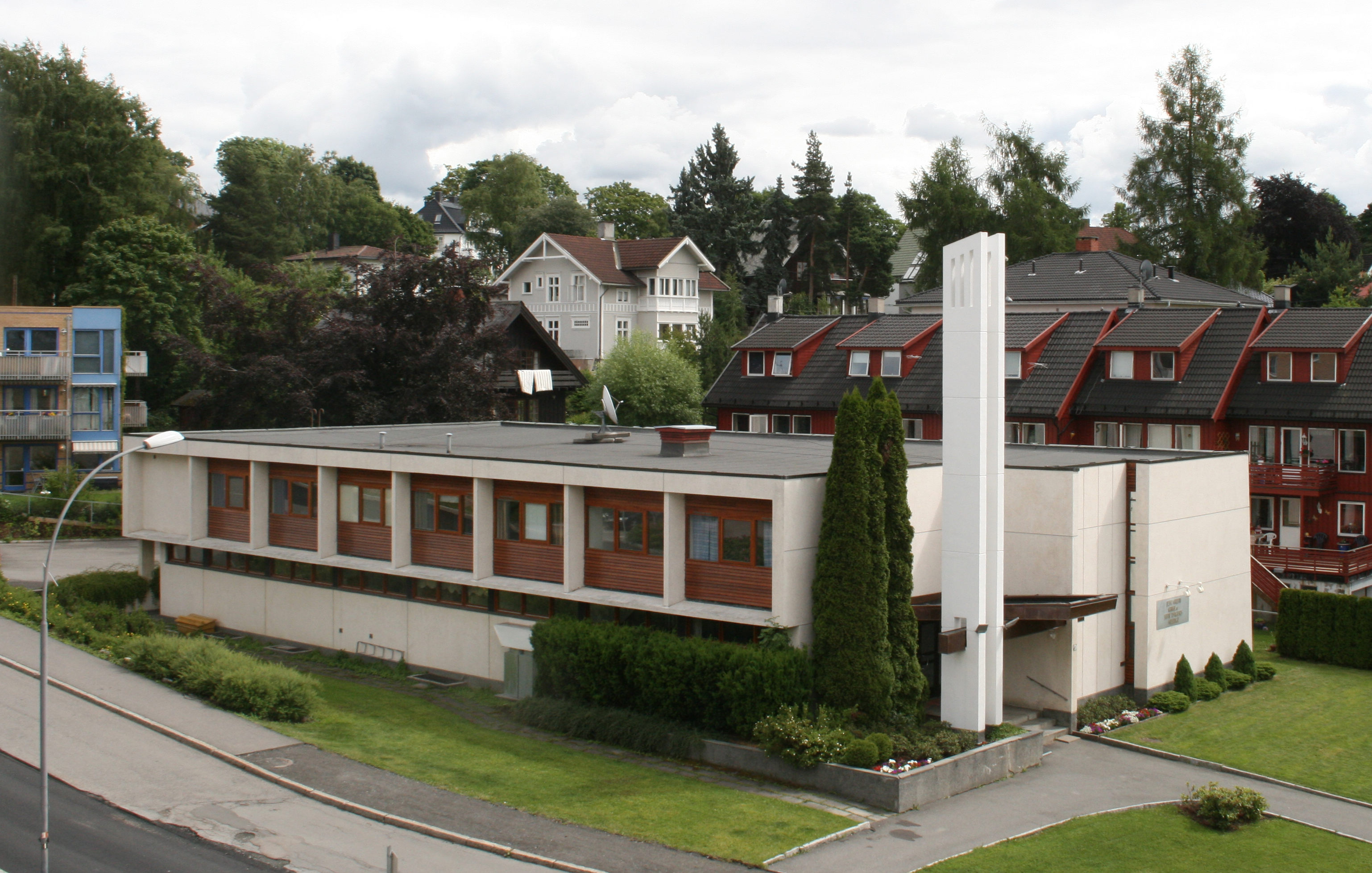 The Church of Jesus Christ of Latter-day Saints in Oslo, Norway